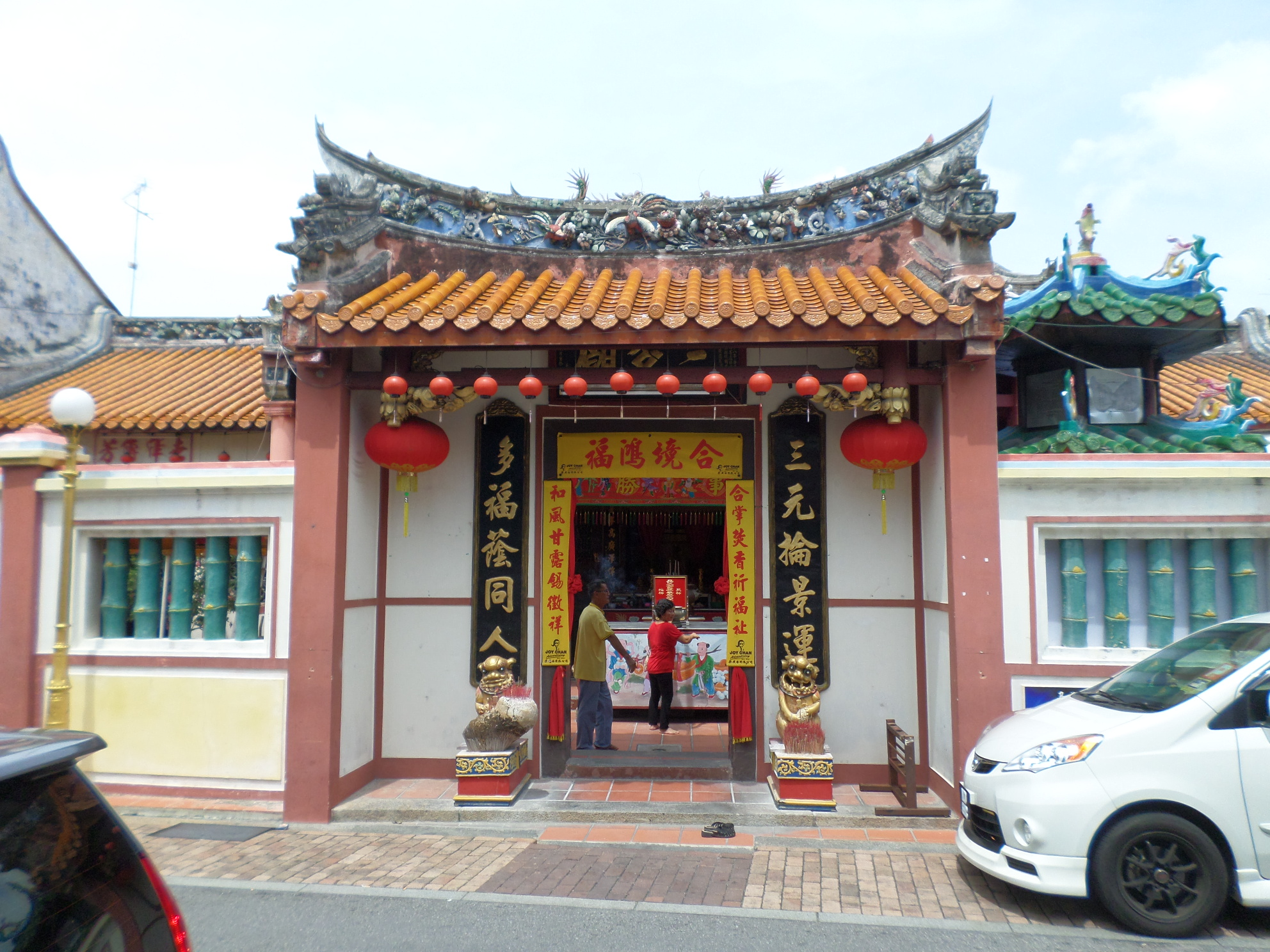 Tua Pek Kong Temple, Chinatown, Malacca City, Malacca, Malaysia